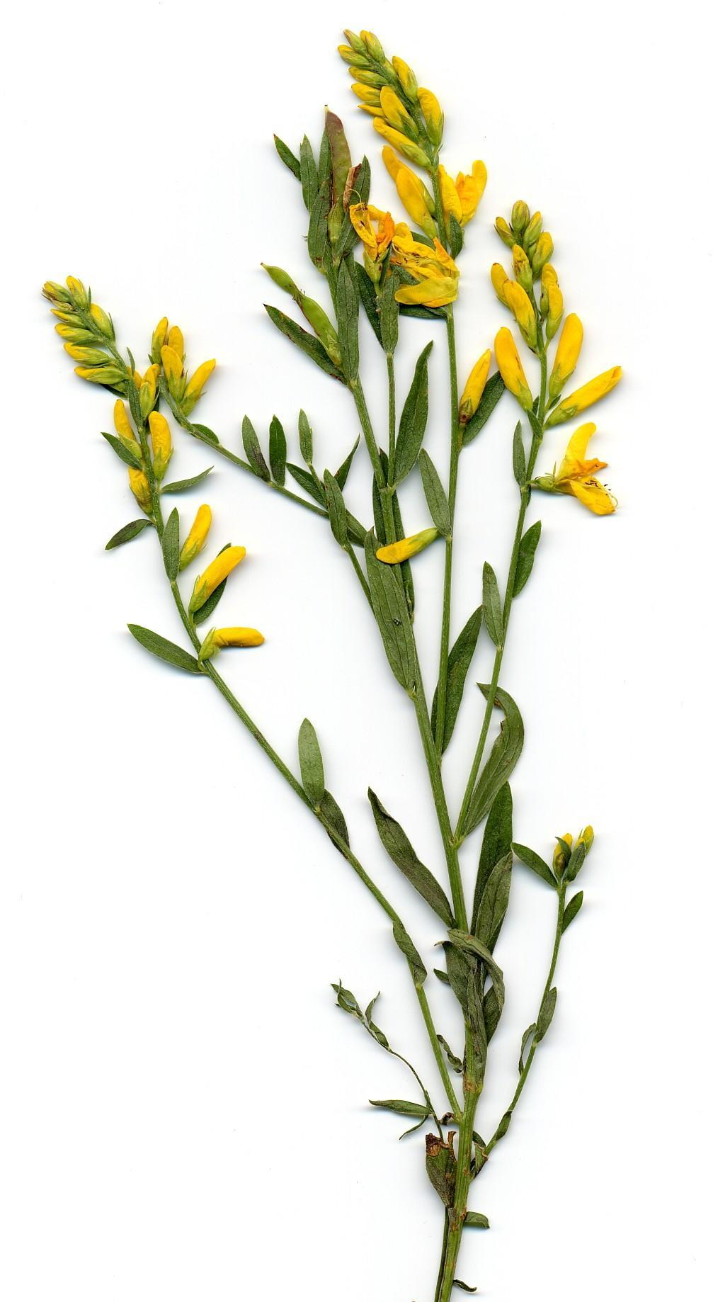 Freshly collected plant of Genista tinctoria.